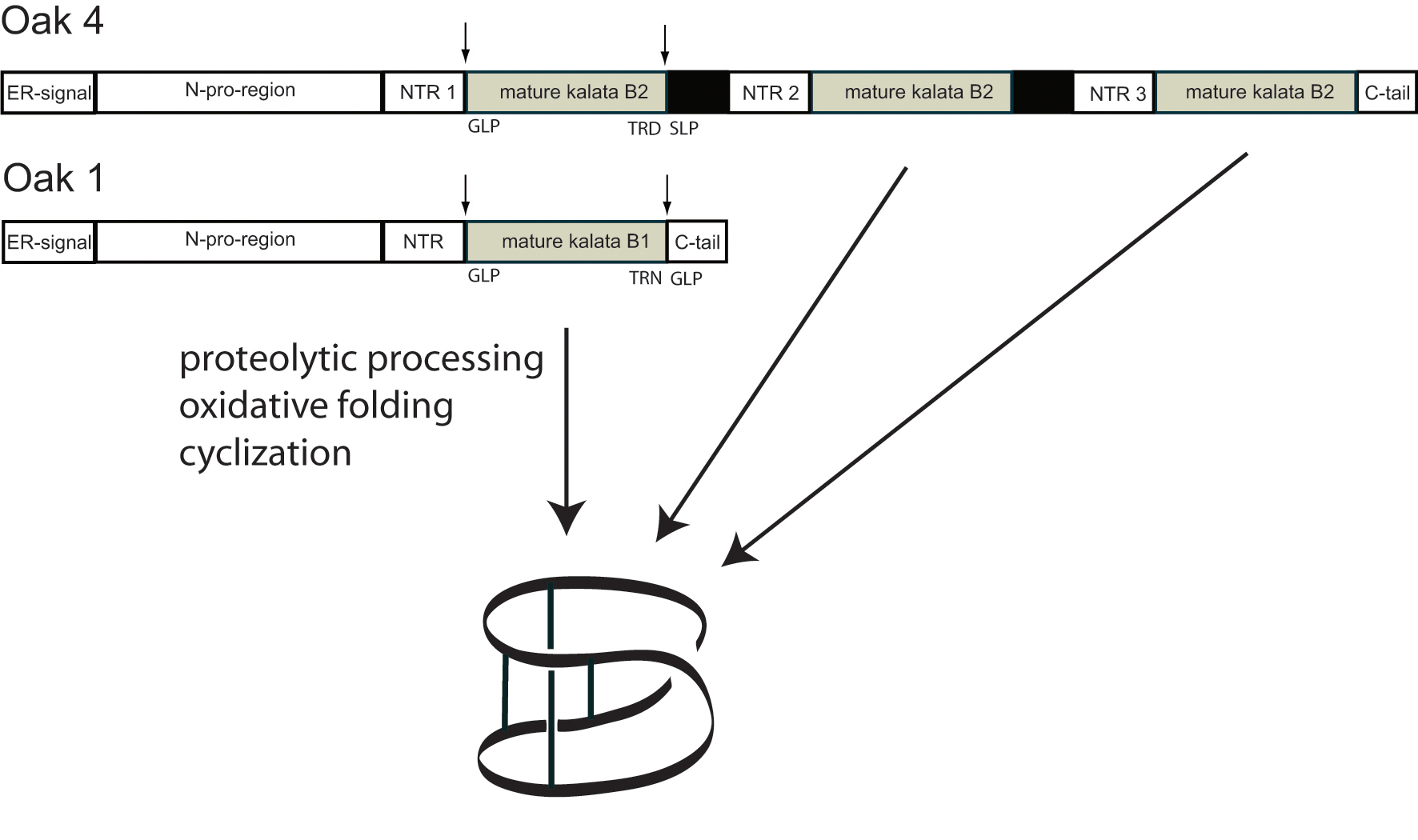 Copied from File:Biosynthesis new.jpg: I created this picture. It is from my research.